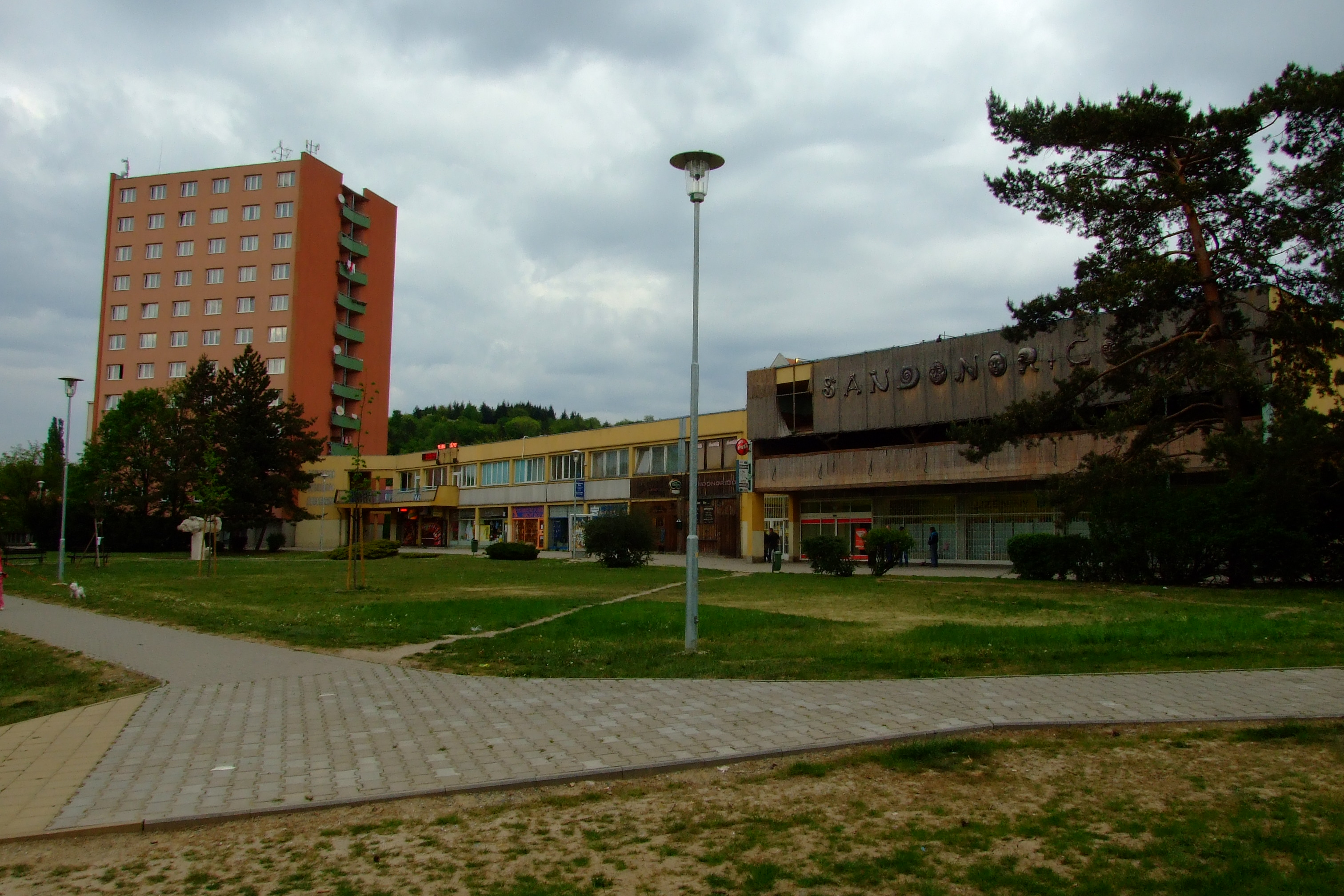 Juliánovské náměstí in Brno-Juliánov